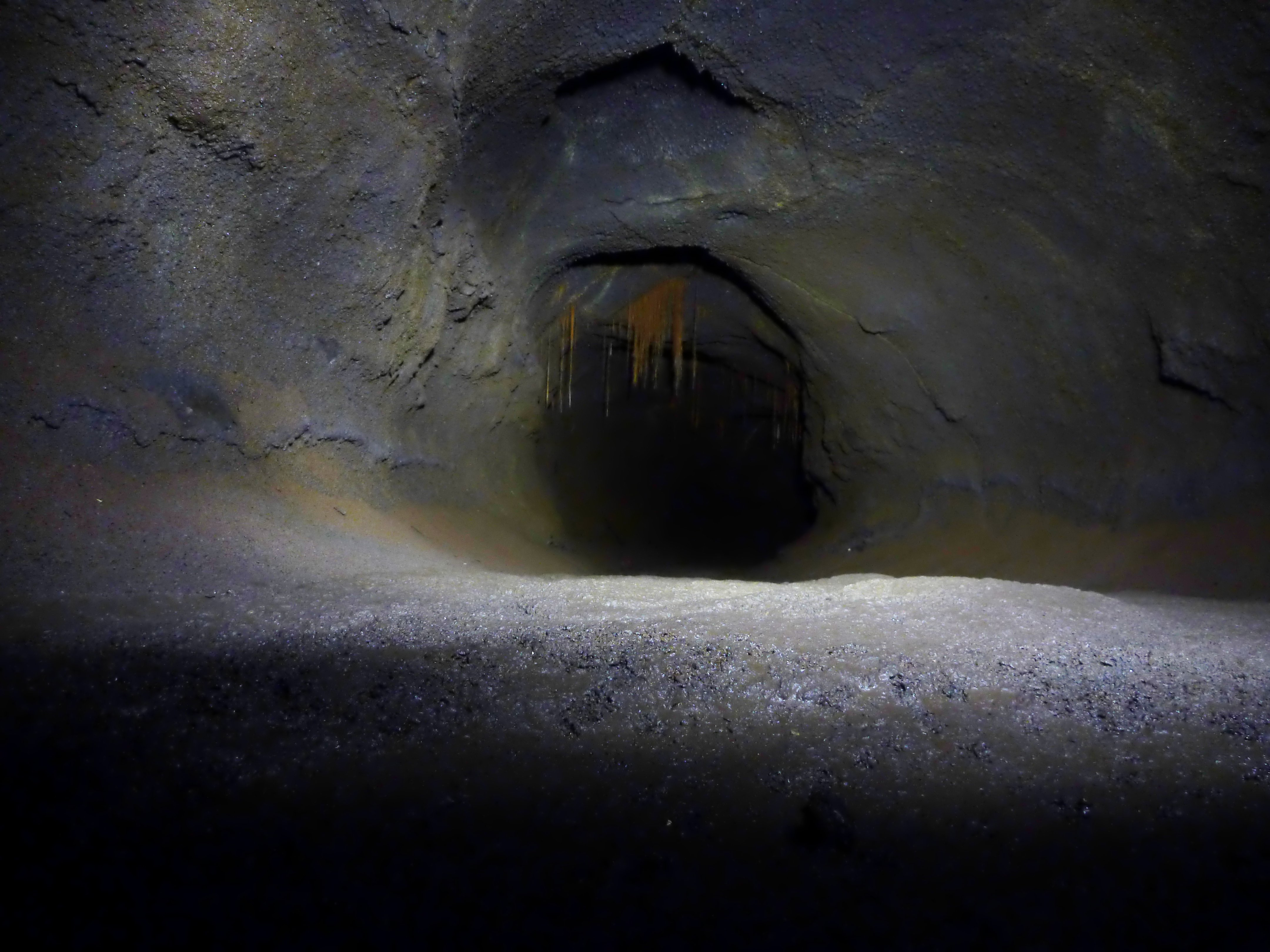 Part of the Thurston Lava Tube without electric lights, Kilauea, Hawaii, United States